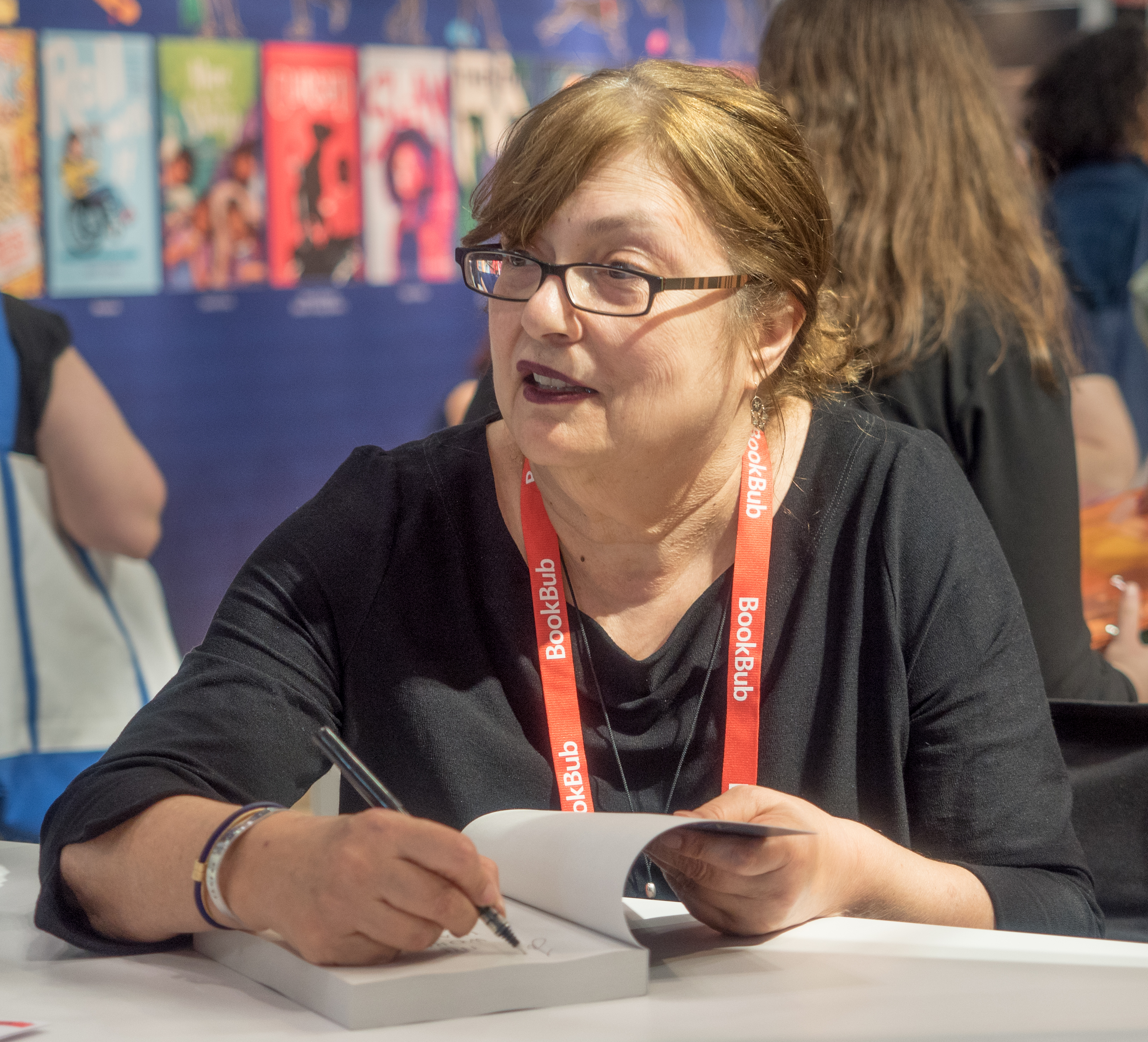 at BookExpo at the Javits Center in New York City, May 2019.